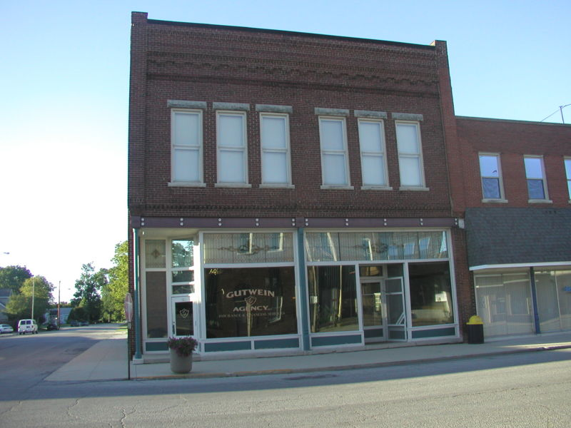 Contemporary picture of the Mallon/Minkert Building, Francesville, Indiana